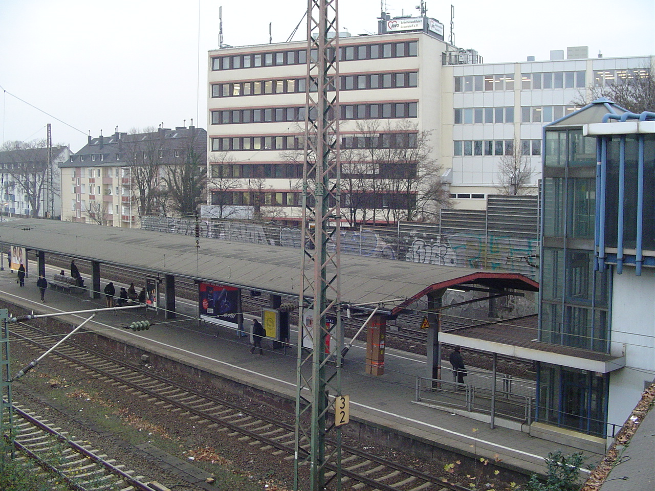 S-Bahn station in Düsseldorf-Derendorf, Germany